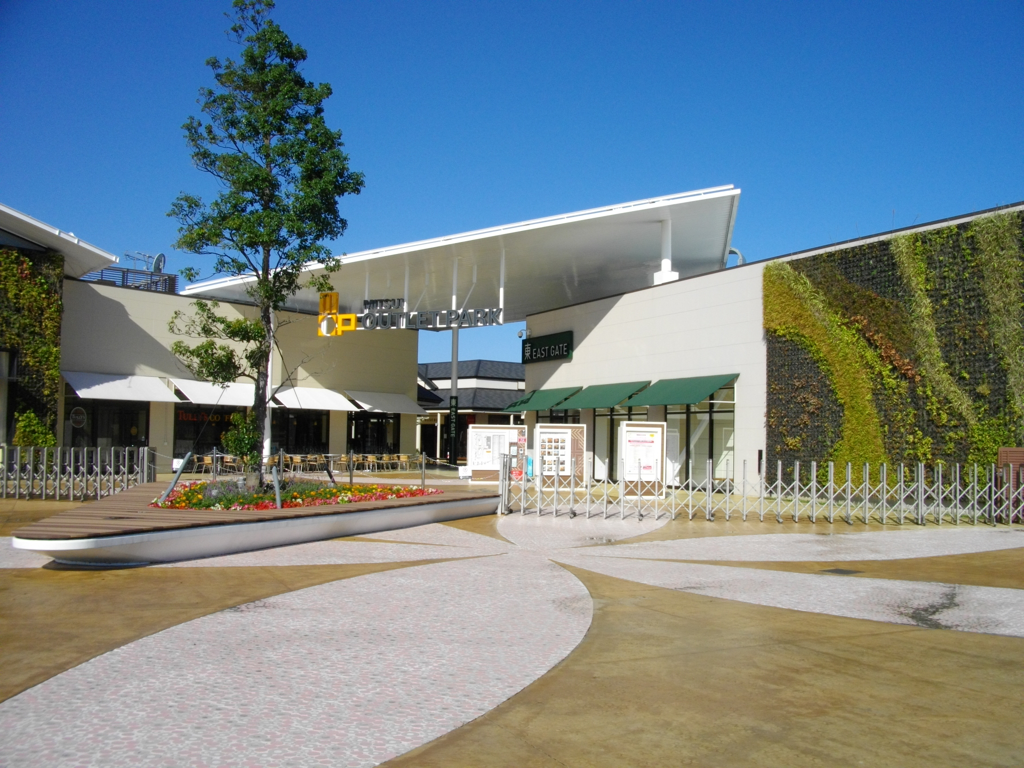 Mitsui Outlet Park Kisarazu